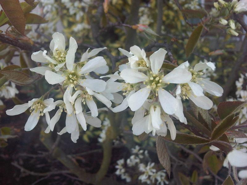 Juneberry (Amelanchier lamarckii) in Kew Gardens, England.